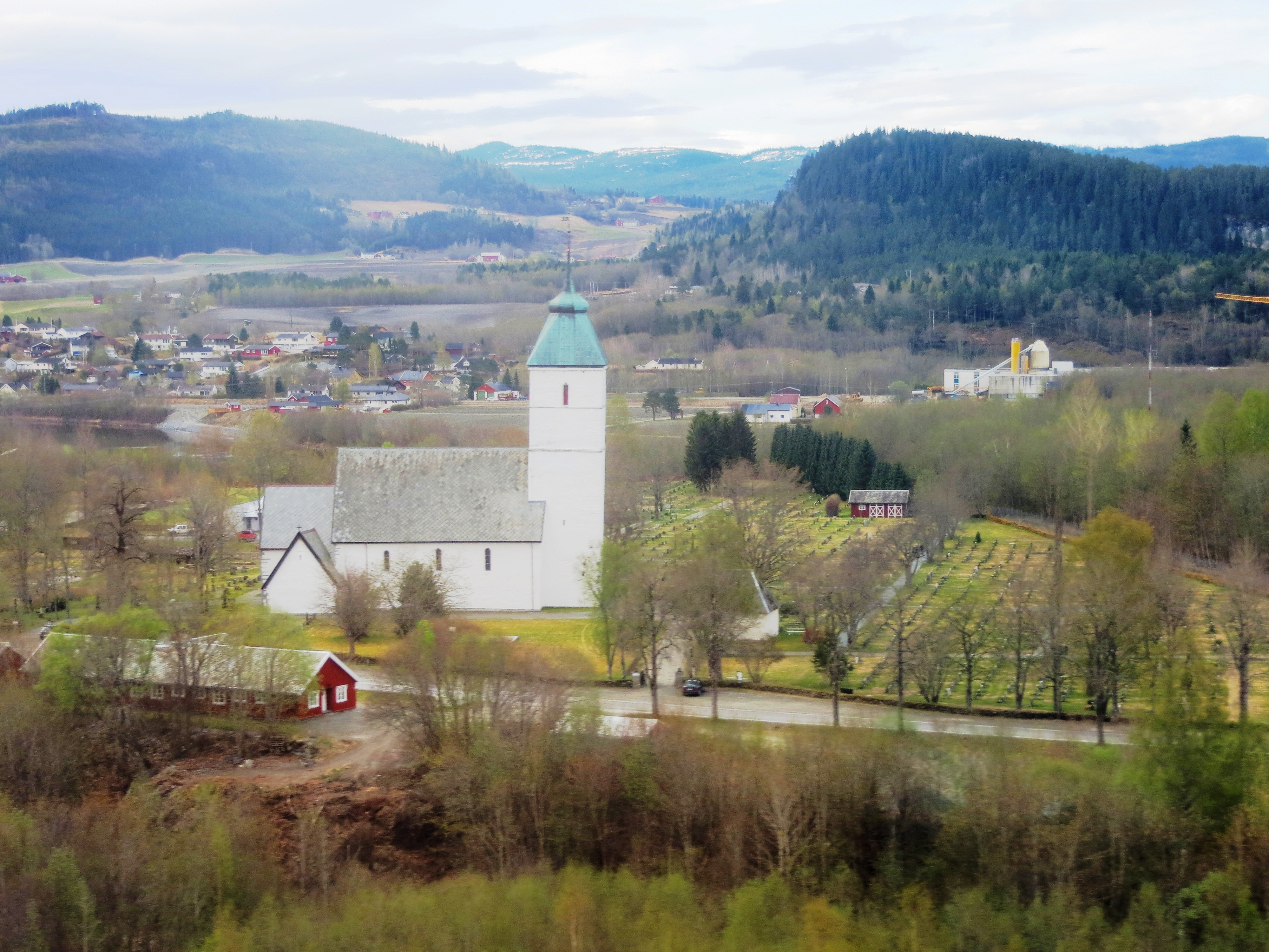 Aerial view over the southern shore of the Stjørdalselva river, in the municipality of Stjørdal - Nord-Trøndelag, Norway